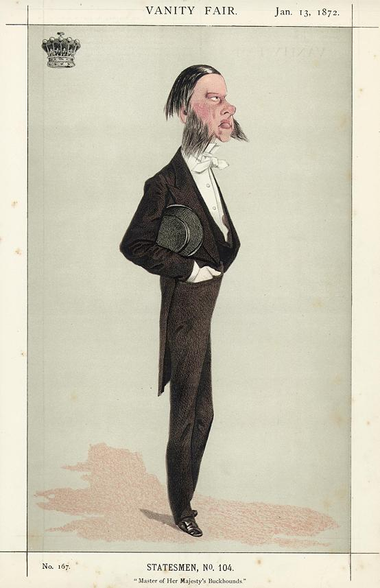 Caricature of Richard Edmund St Lawrence Boyle, 9th Earl of Cork and 9th Earl of Orrery (1829-1904). Caption read "Master of Her Majesty's Buckhounds".